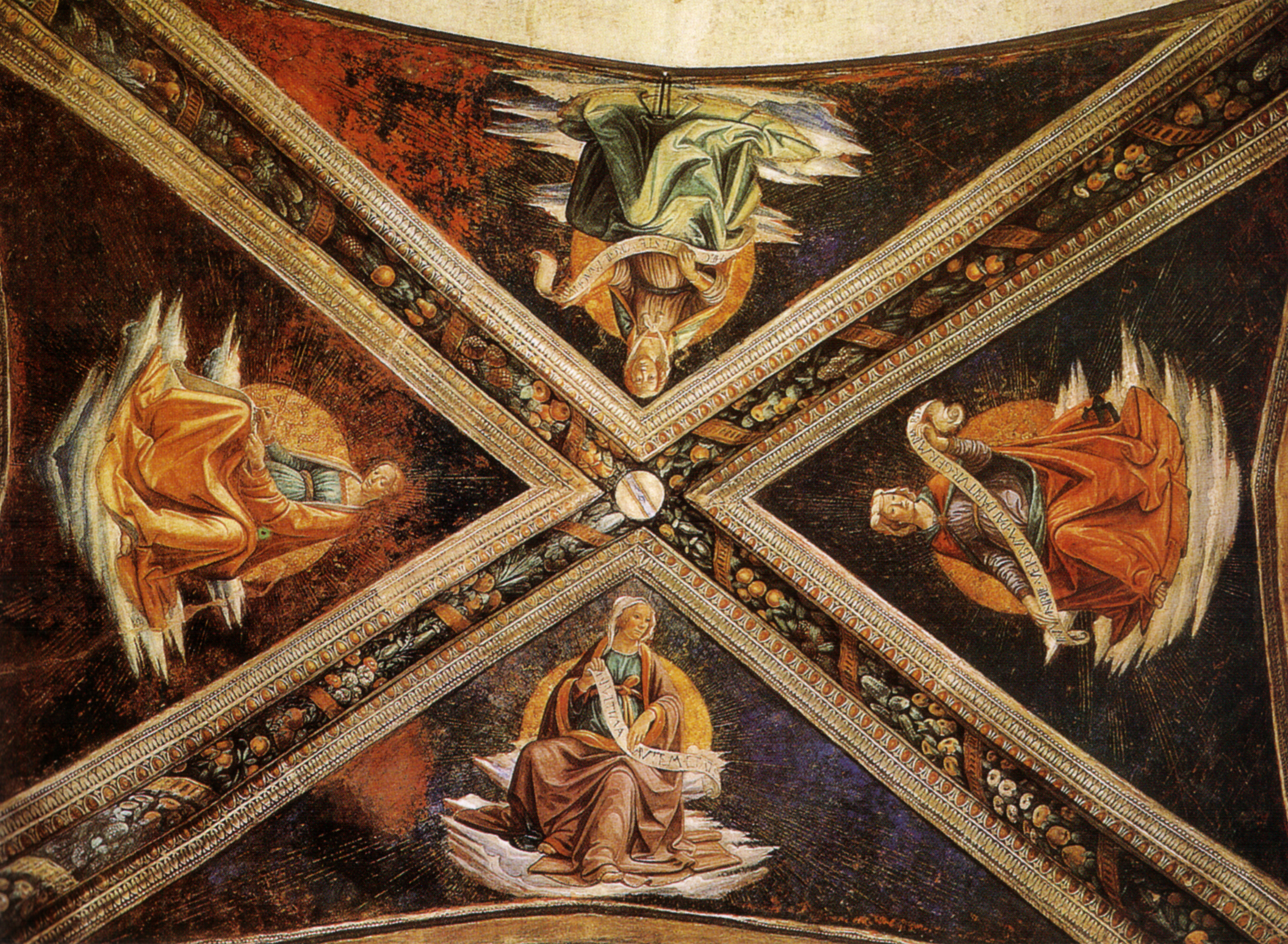 Ghirlandaio Sybils Fresco Church of Santa Trinita, Sassetti Chapel, Florence